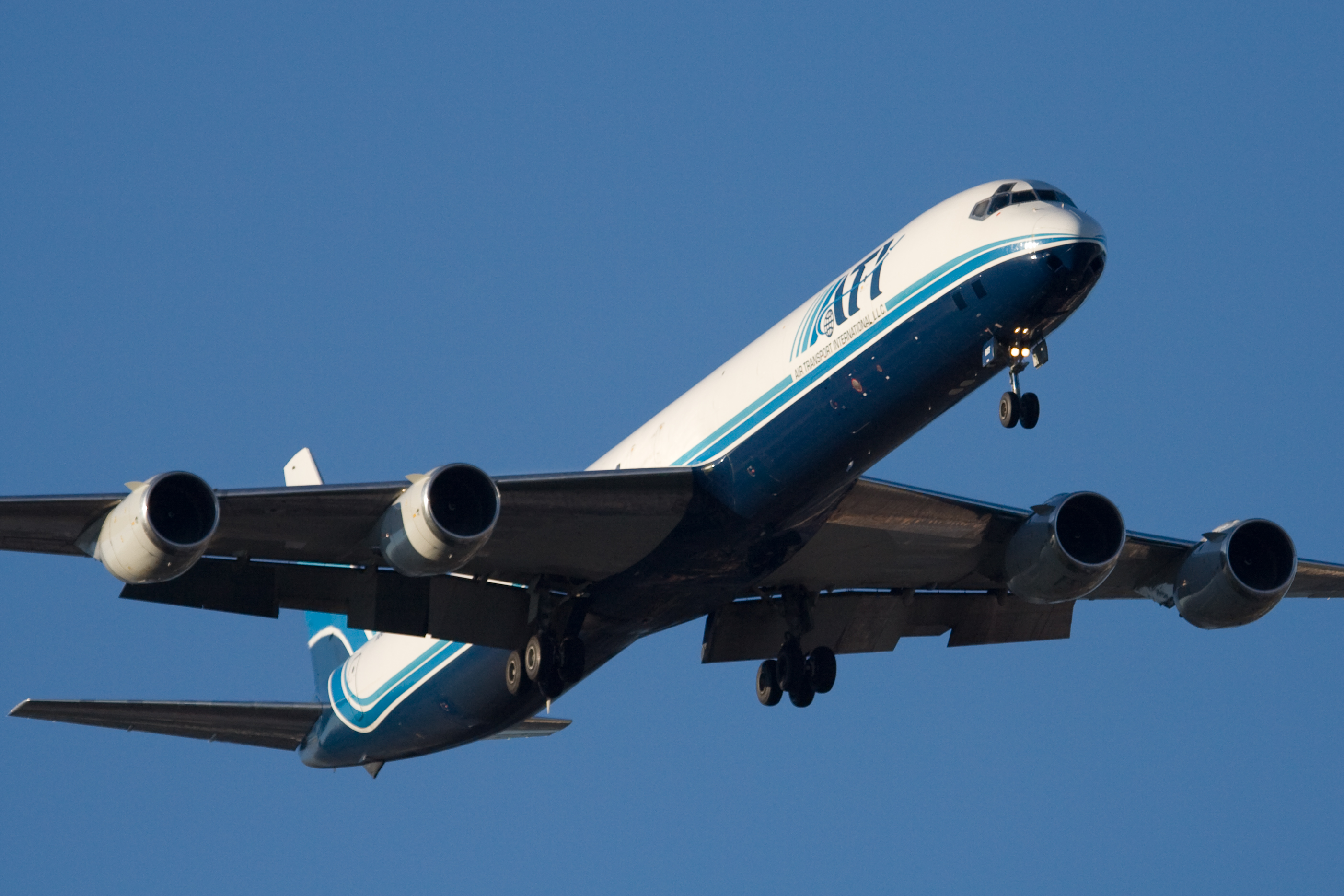 Air Transport International #834 from Toledo is on an early morning 1/2 mile short final for 30L